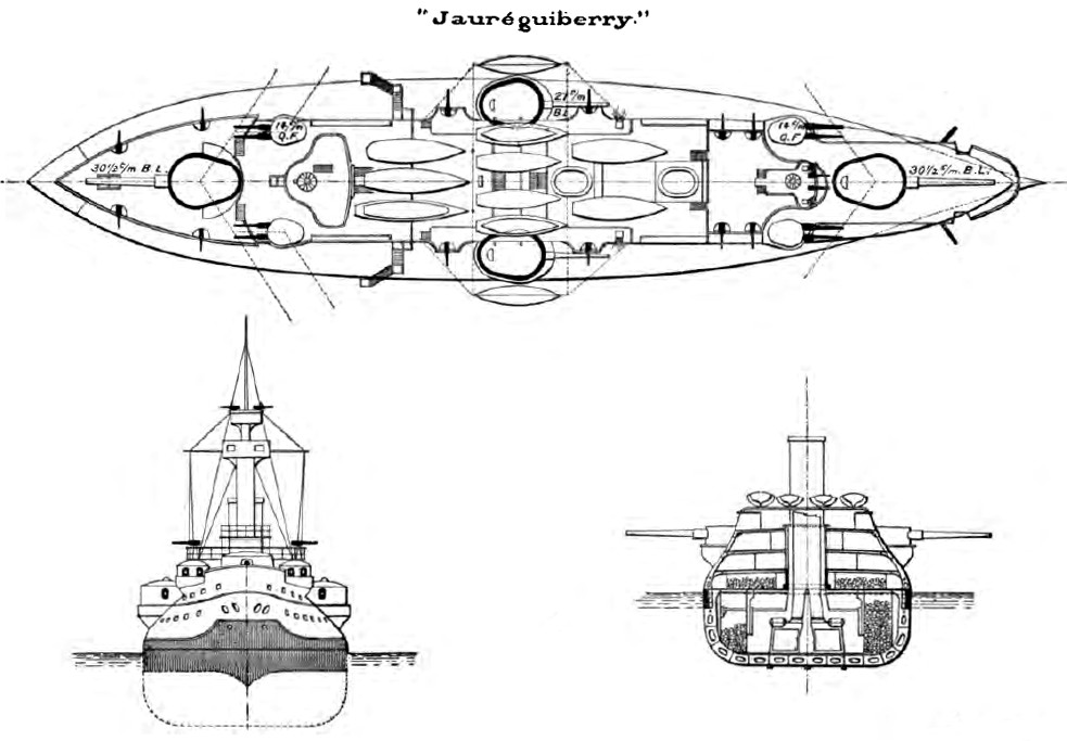 Deck plan, bow view and hull cross-section diagrams showing French battleship Jauréguiberry.